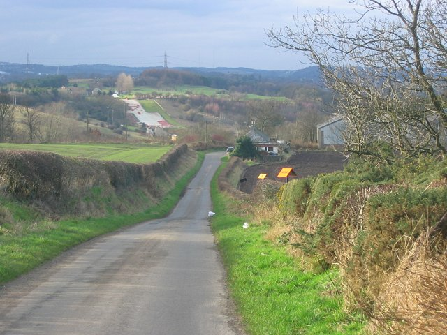 Inveravon. Looking west towards Inveravon and across to a ski slope on the Stirlingshire bank of the Avon. The road follows the alignment of the Antonine Wall. Pipeline markers for a feeder or exporter from Grangemouth petrochemicals complex which also intrudes into this square.